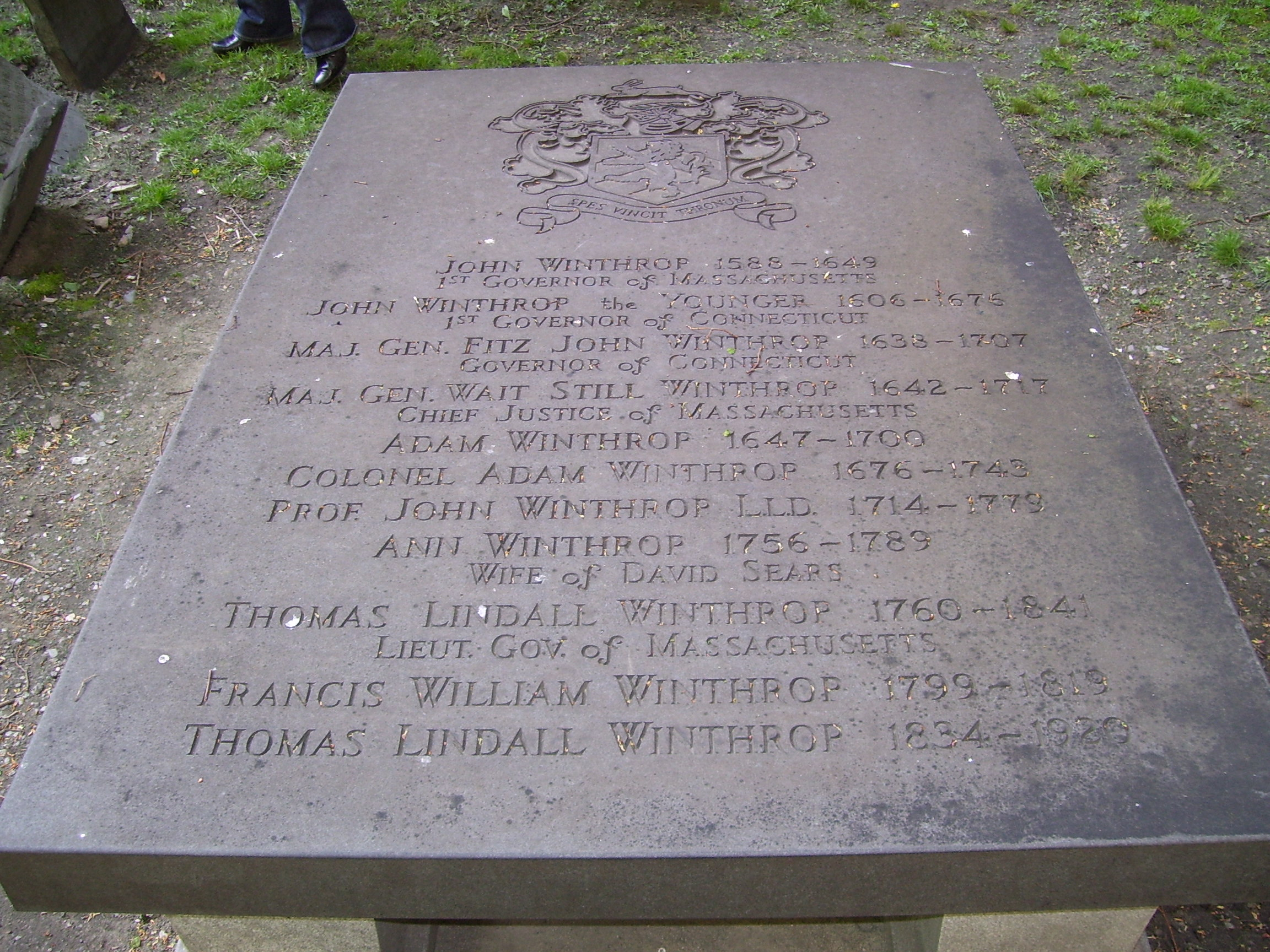 This is my photo from 2008 of the John Winthrop Tomb in Boston.